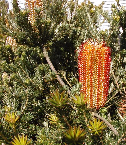 Banksia ericifolia cultivated Victoria (near Colac) - Sept 04/photo Cas Liber